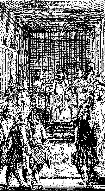 An engraving of a fellow craft lodge, ca. 1745 AD, named "Réception des Compagnons".